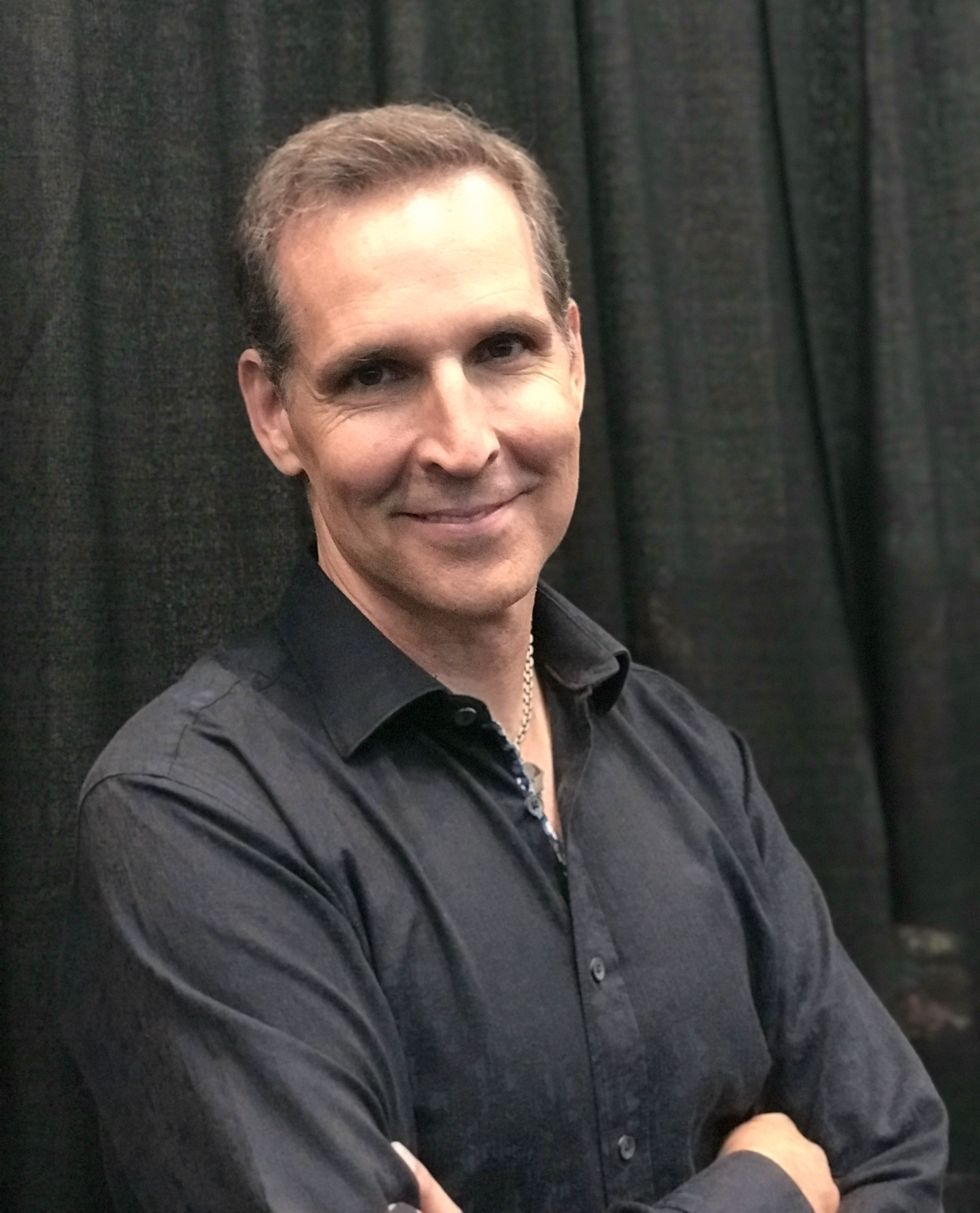 Comics creator and entrepreneur Todd McFarlane in the Fourth Floor press lounge at the Jacob K. Javits Convention Center in Manhattan, on Thursday, October 5, 2017, Day 1 of the 2017 New York Comic Con. This photo was created by Luigi Novi. It is not in the public domain, and use of this file outside of the licensing terms is a copyright violation.